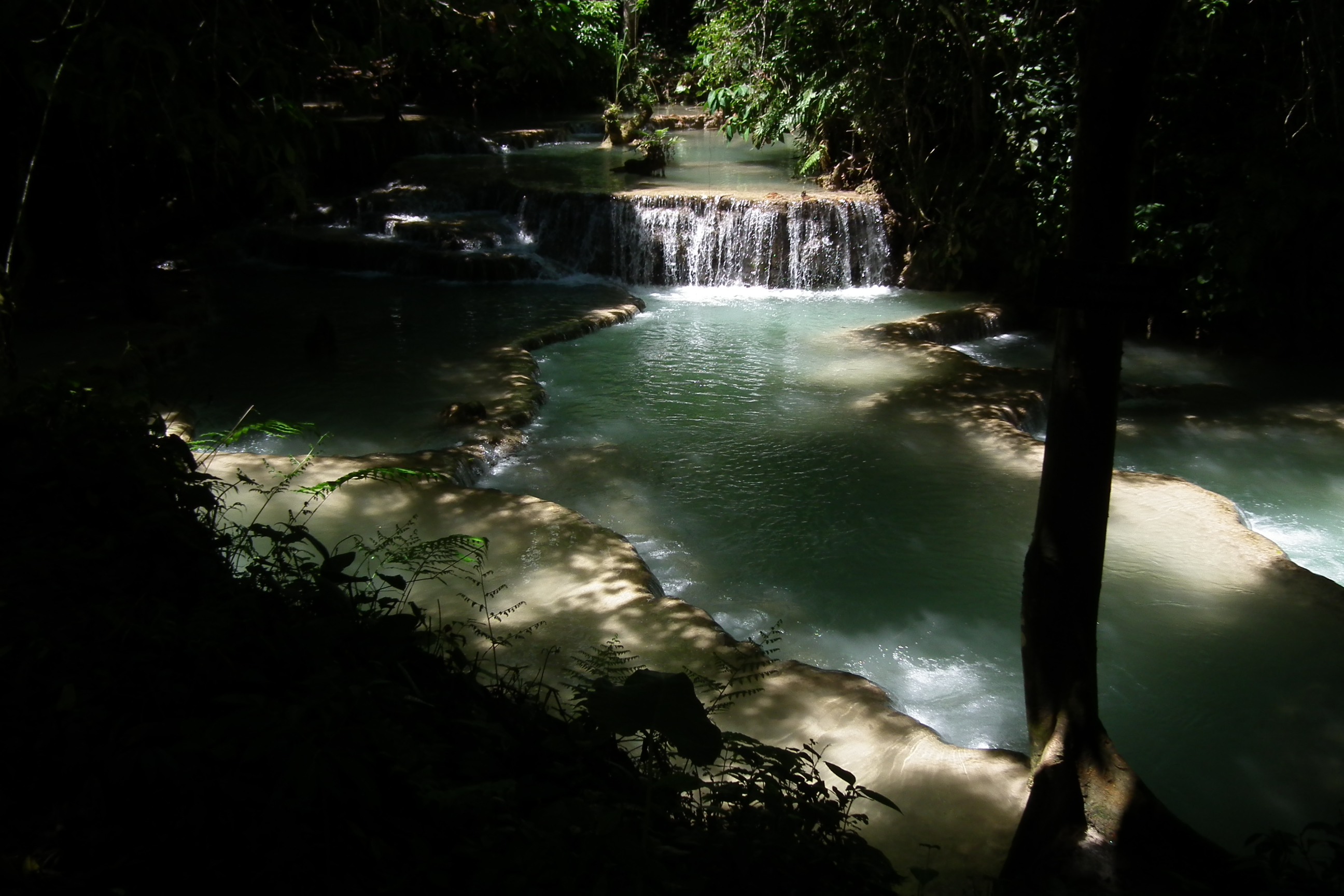 Kuang Si Waterfalls Luang Prabang-Laos